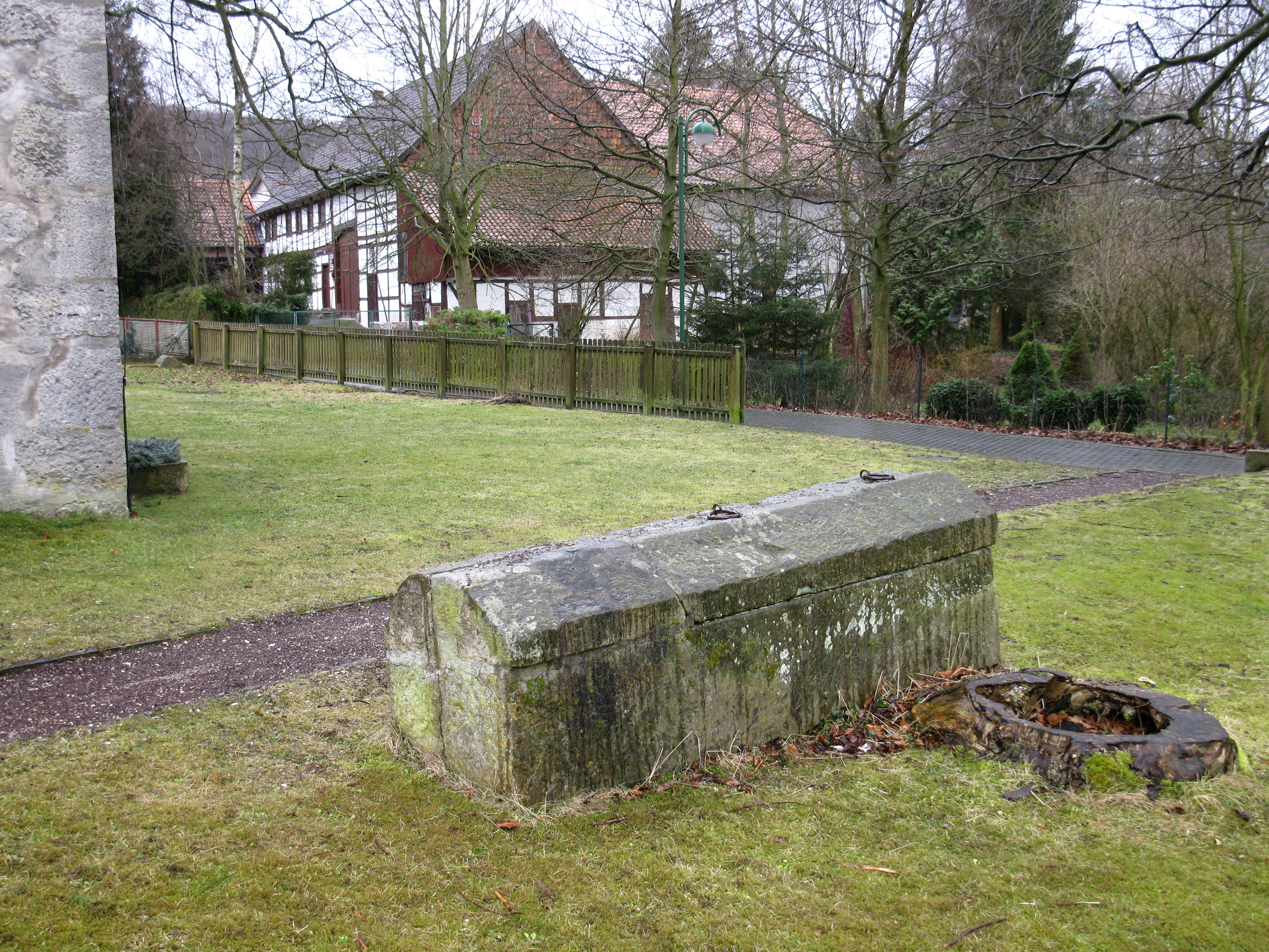 Stone coffin in front of the church in Eberholzen